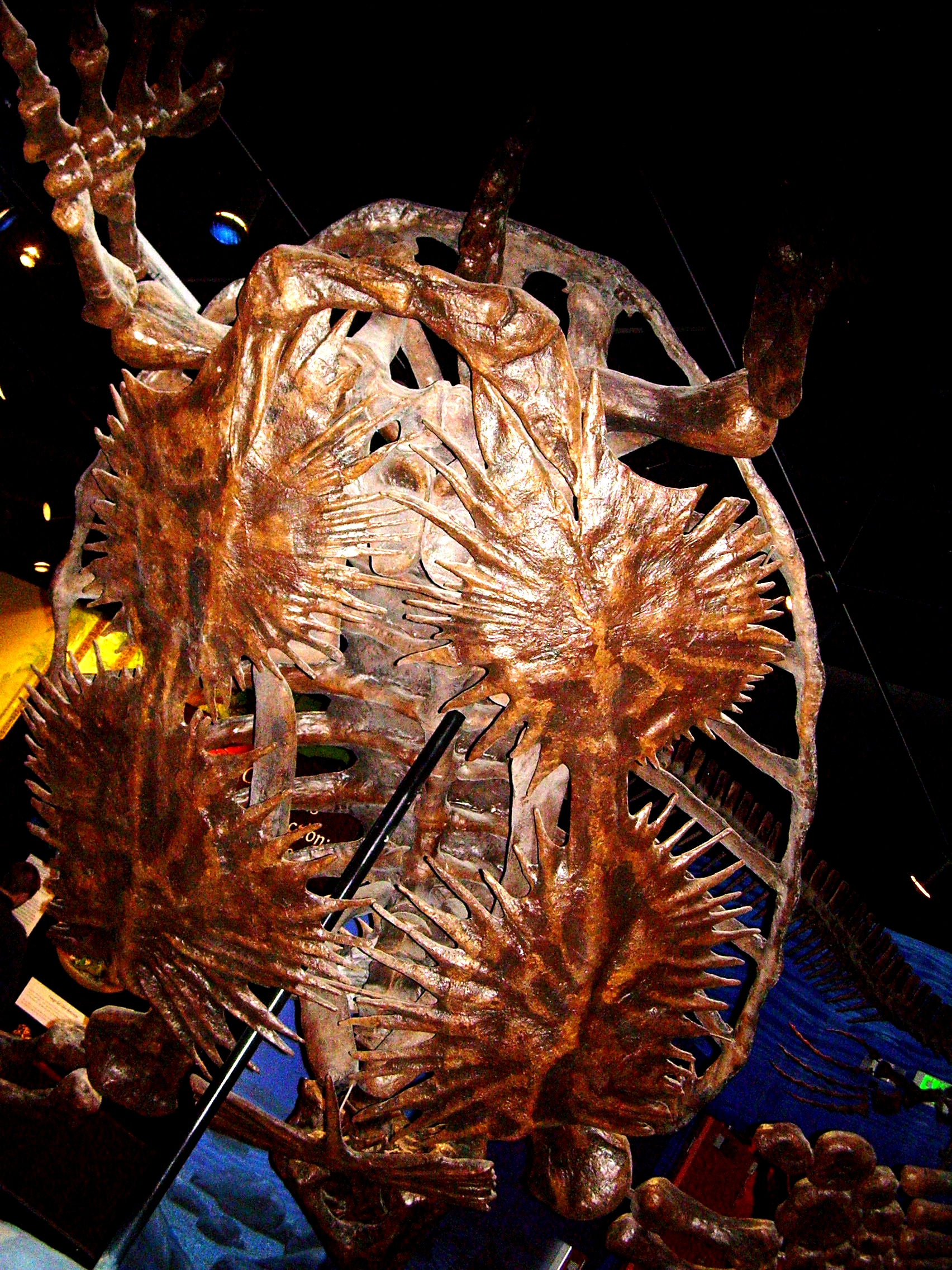 Photograph of the ventral side of a fossil cast of an Archelon ischyros taken at the North American Museum of Ancient Life.